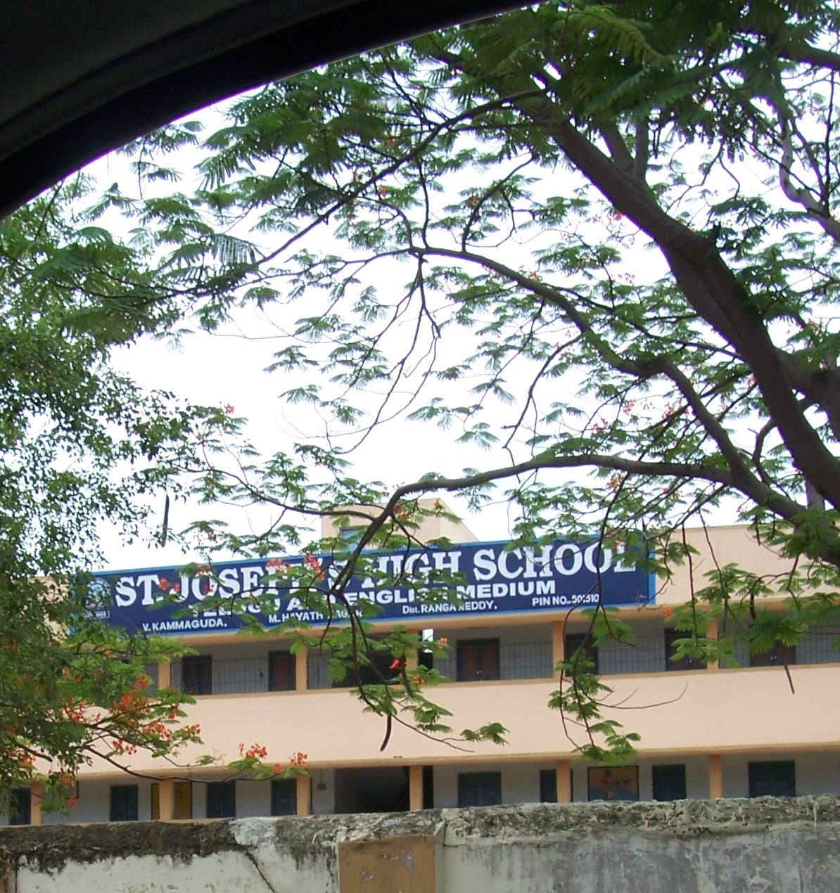 St.josef high school